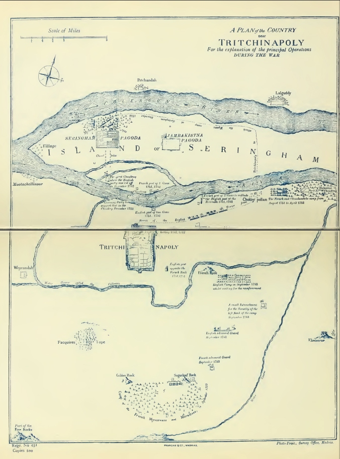 A map of Tiruchirappalli city drawn during the Carnatic Wars